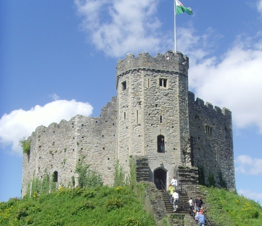 Cardiff Castle keep, Cardiff, Wales